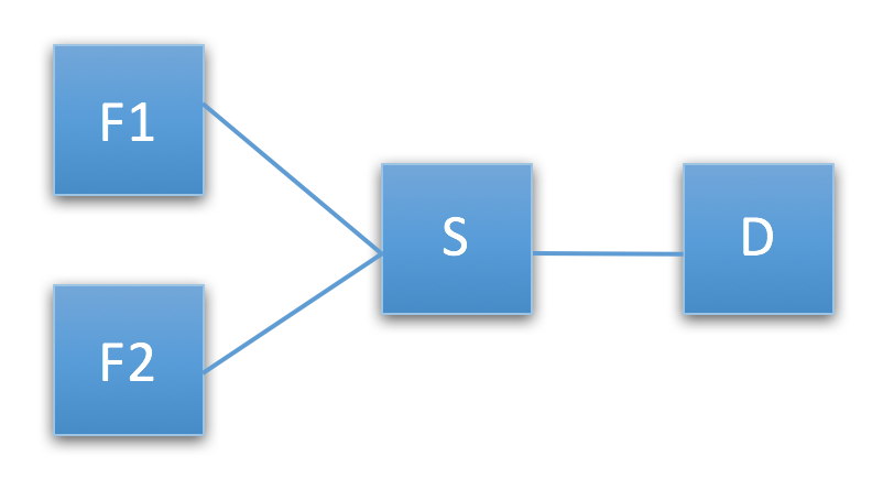 Diagram of routers connected to show congestion on link